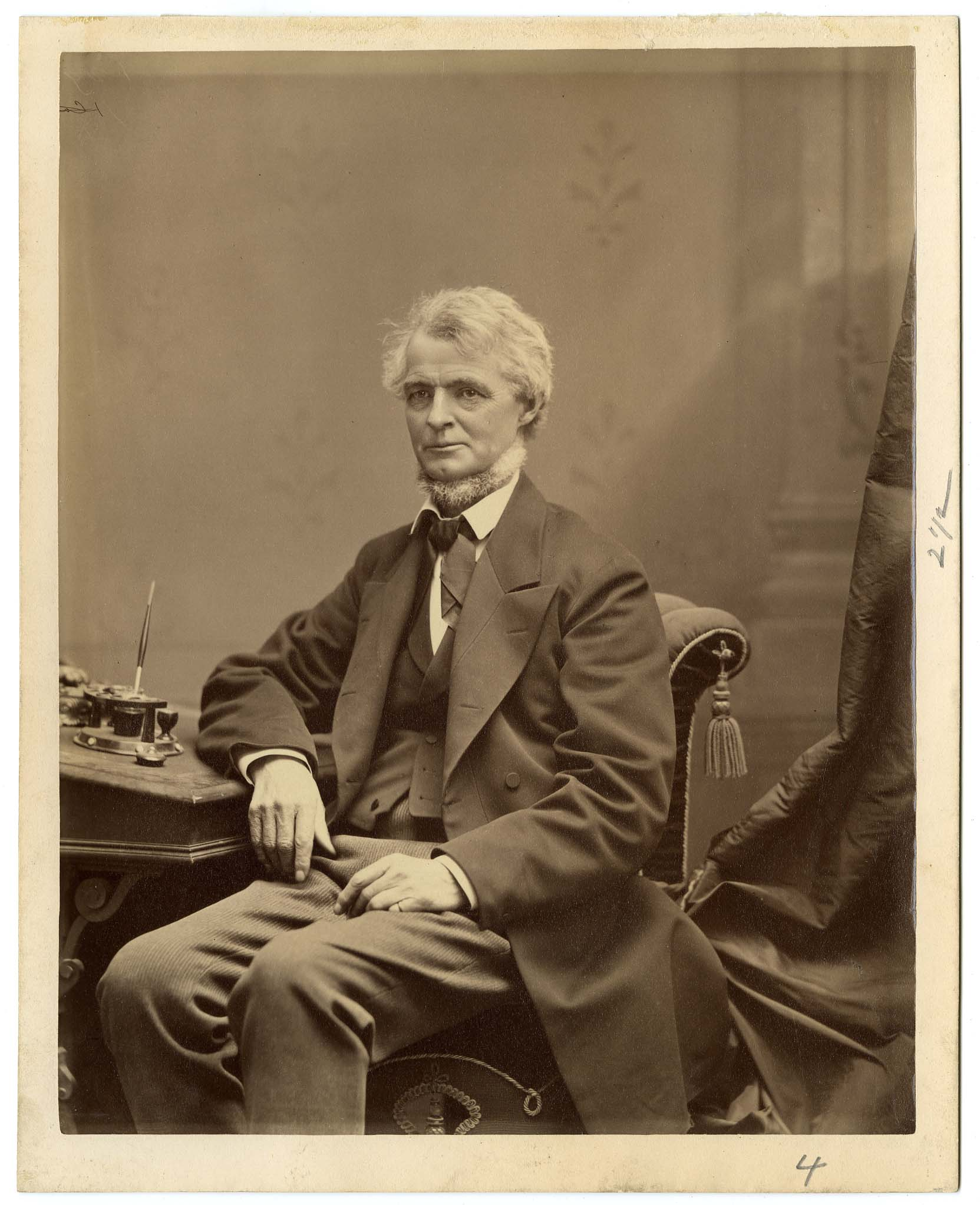 Photograph of Hon. David Rumsey